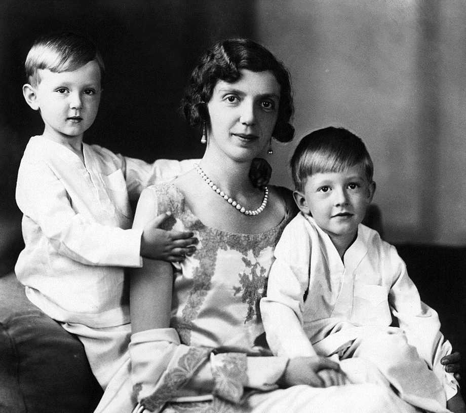 Princess Mafalda of Savoy posing with her sons Maurice and Henry. 1930s